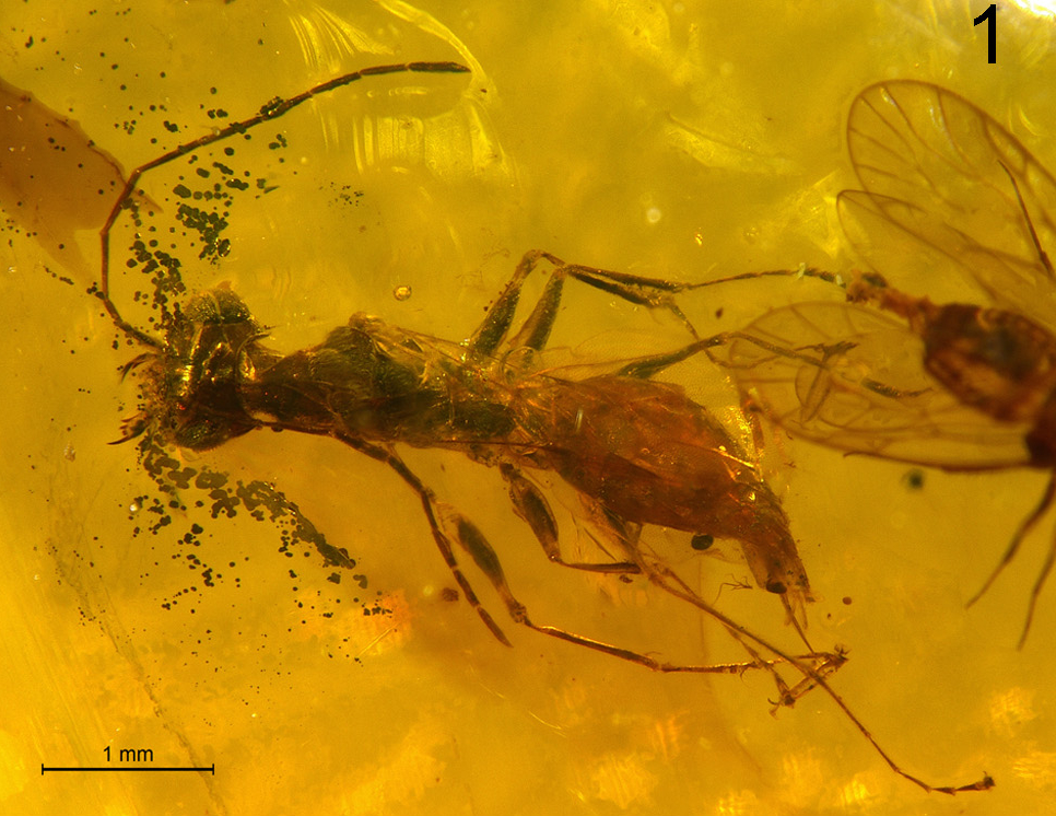 Dryinus maderai: female holotype: 1, dorsal view; Scale bar 1.0 mm